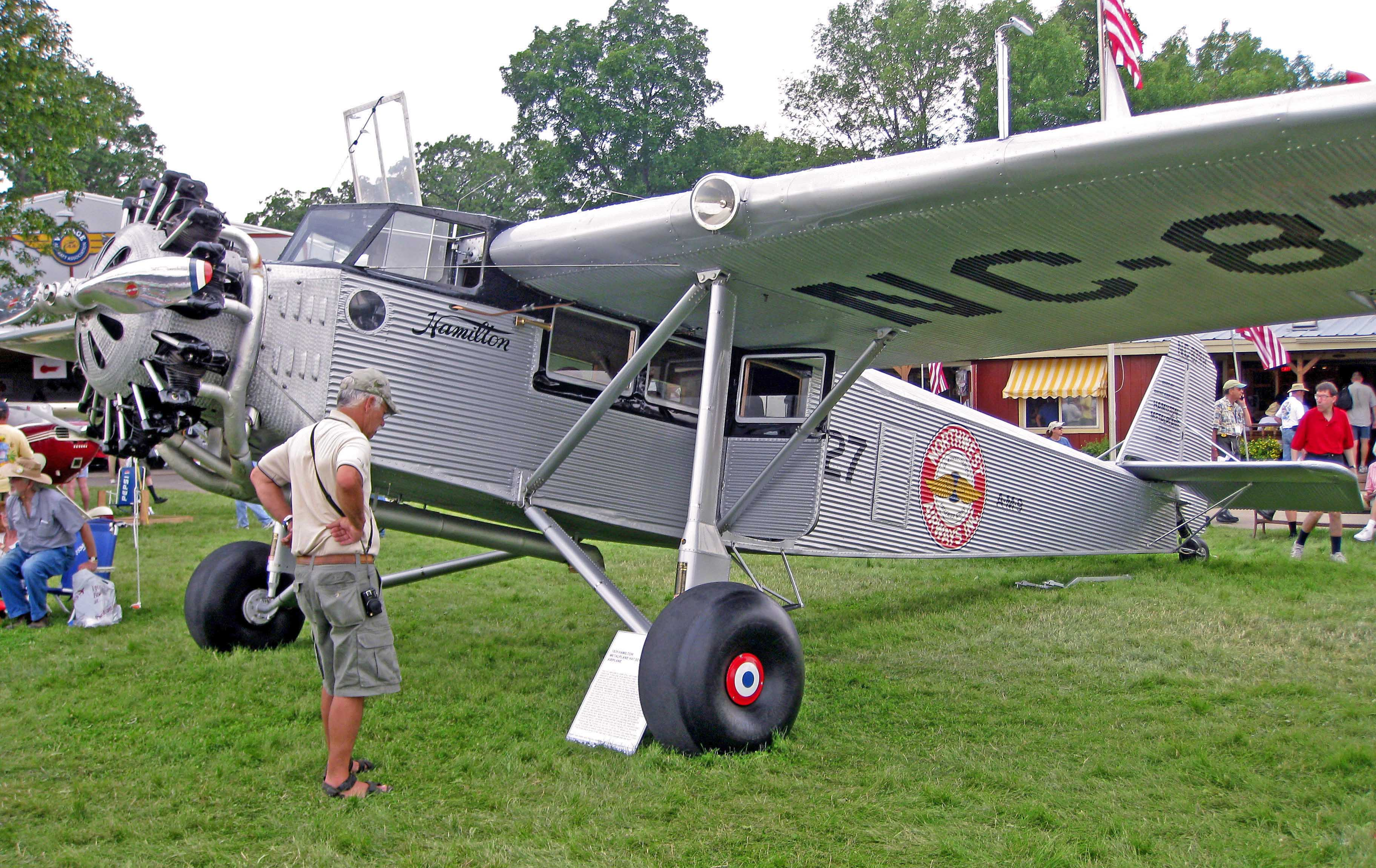 Hamilton H-47 Metalplane NC879H, built in 1929, in the markings of Northwest Airways Inc, displayed at Oshkosh, Wisconsin, in July 2010.